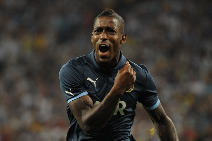 Dutch footballer Ruben Schaken while playing for Feyenoord.